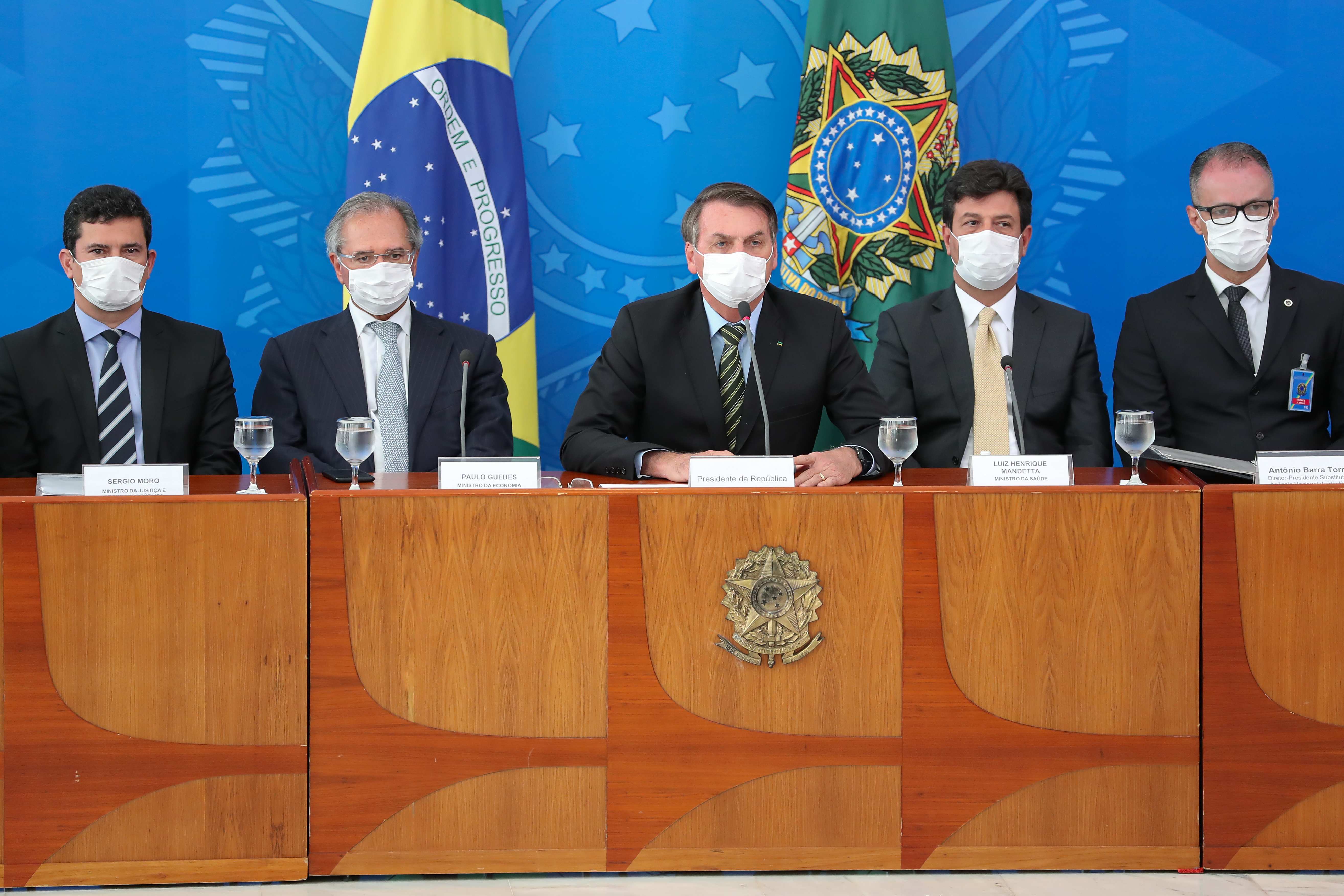 (Brasília - DF, 18/03/2020) Coletiva à Imprensa do Presidente da República, Jair Bolsonaro e Ministros de Estado. Foto: Marcos Corrêa/PR